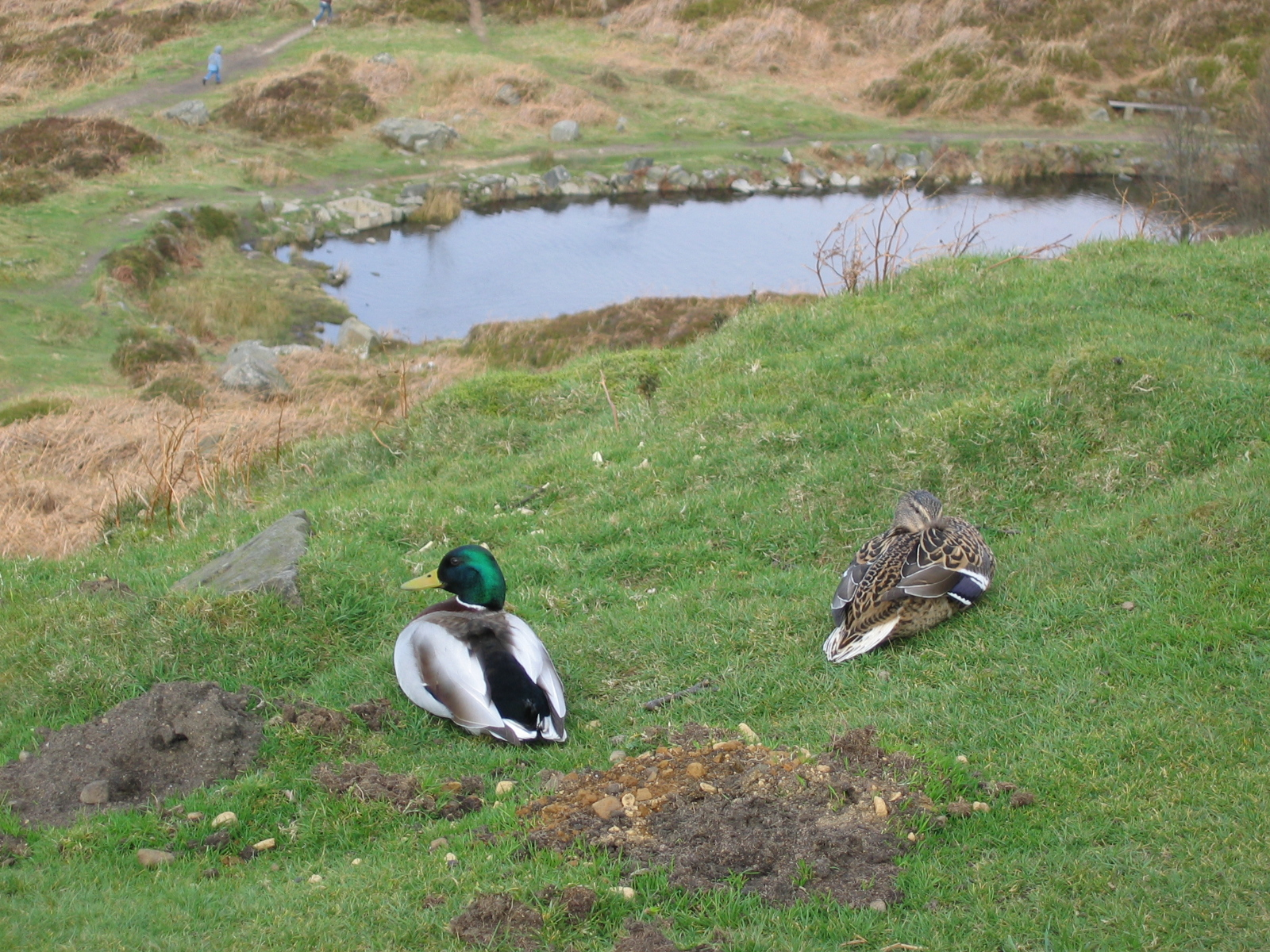 Ducks on Ilkley Moor, near the "White Wells" Hydro.